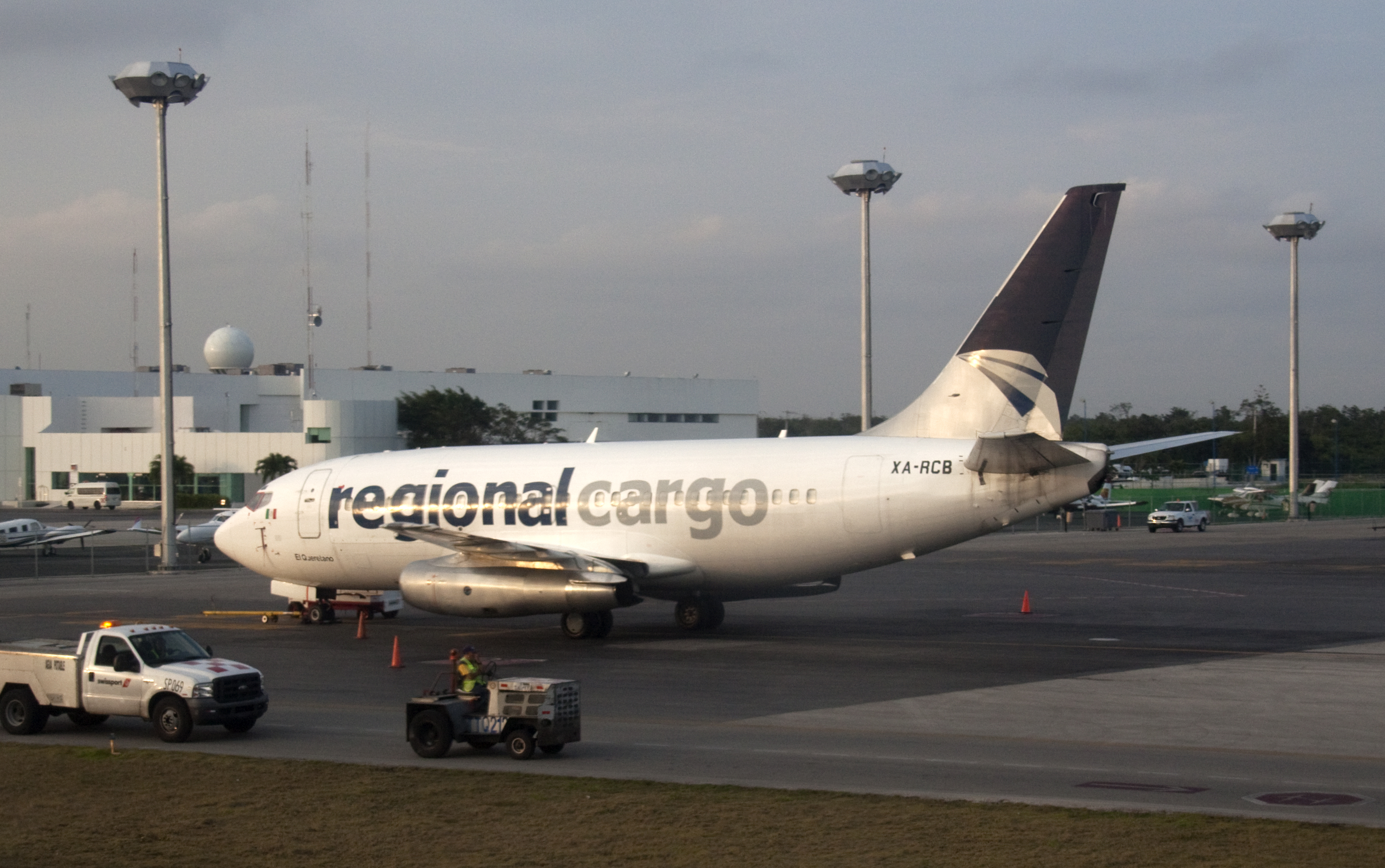 Seen from our plane while taxiing out to the runway at Cancun Airport. This 737 was interesting because it had a completely different Livery on each side of the aircraft